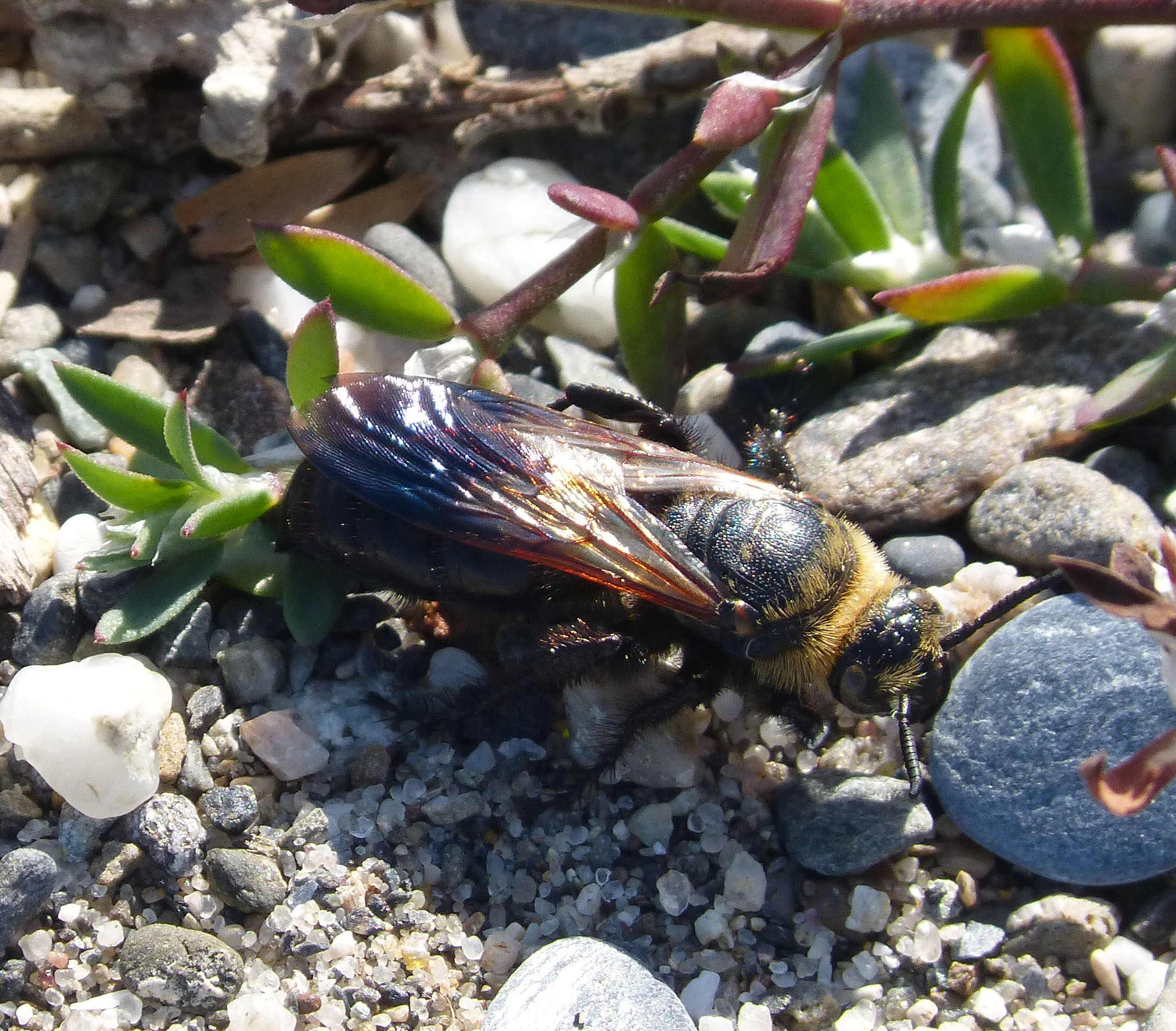 Image of a Campsomeriella thoracica